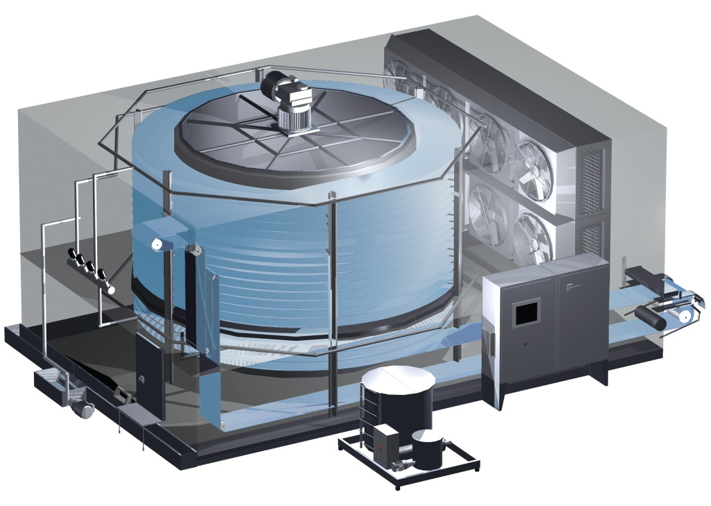 A spiral freezer